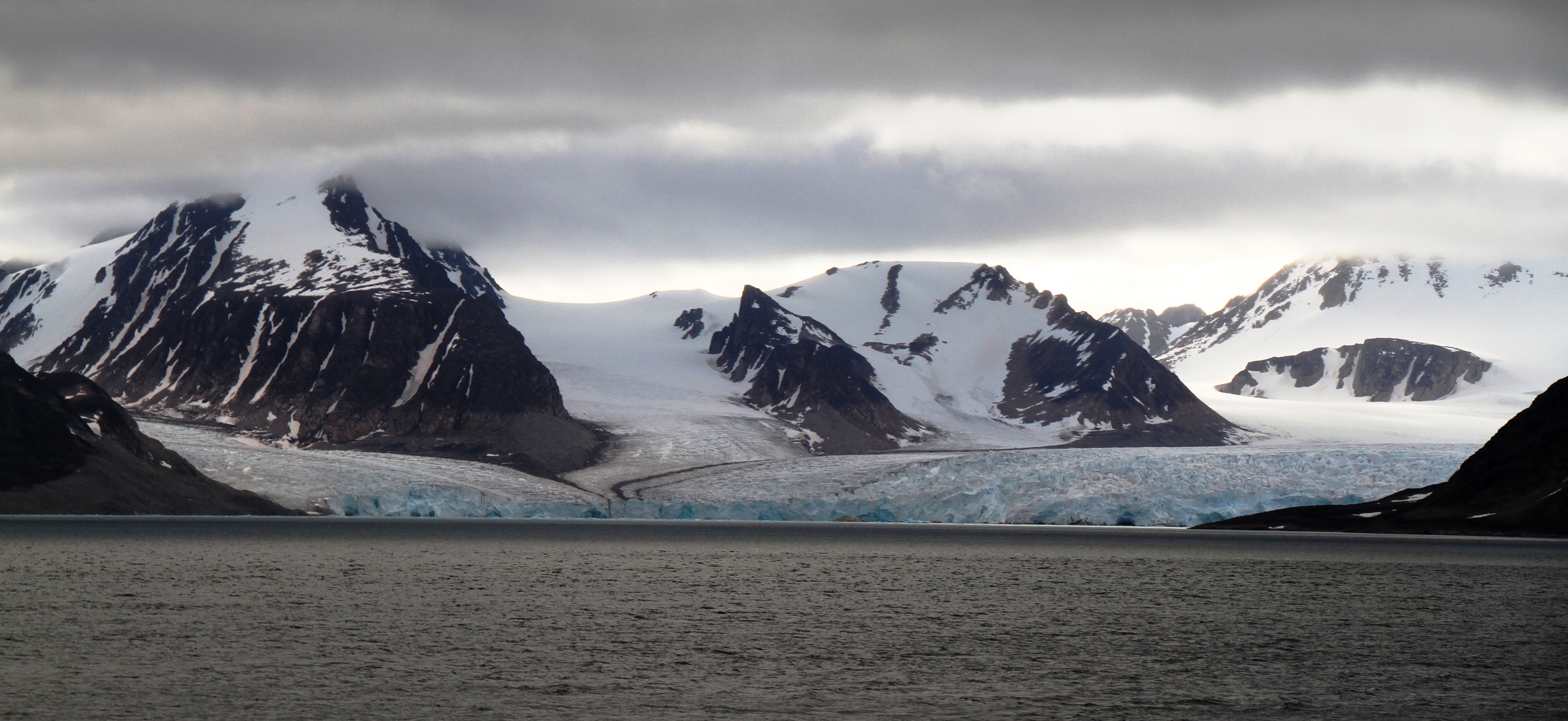 Mountaneous-glacial landscape by the Smeerenburg Fjord, northwestern Albert I Land, Spitsbergen (Norway).